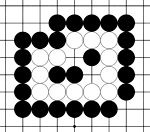 Seki is a situation in which neither white or black "wants" to play. Playing would cost a serious lost.